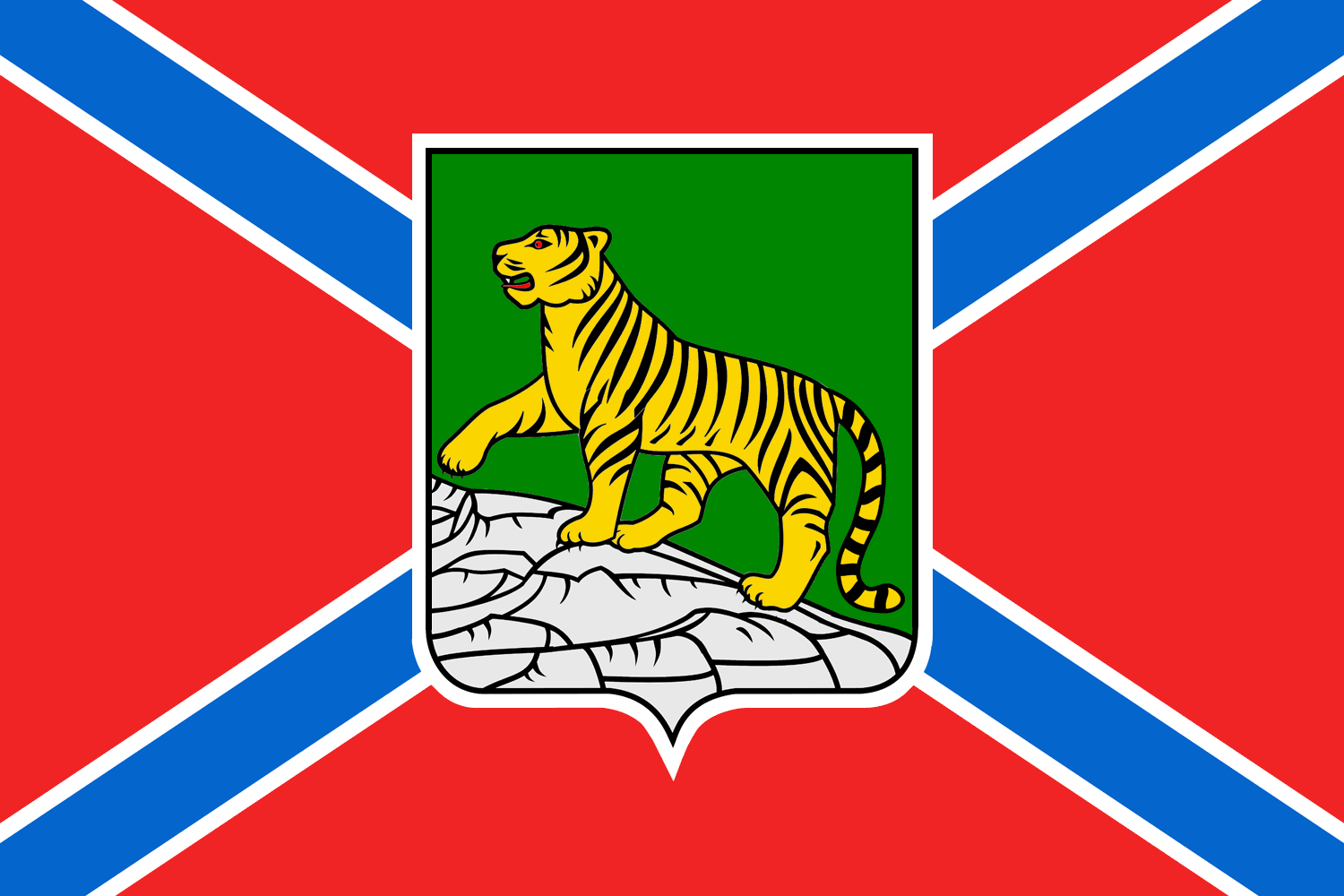 Flag of Vladivostok, Primorsky Krai, Russia